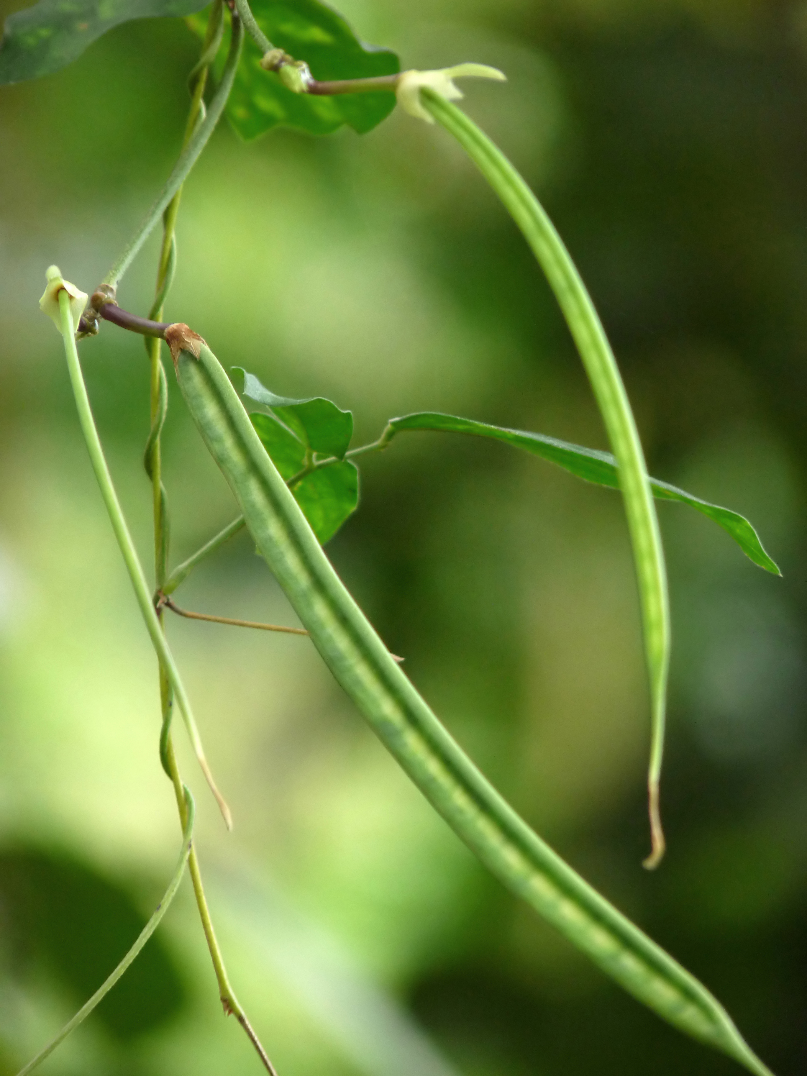 Centrosema pubescens, The butterfly pea, also known as Centro is part of the genus Centrosema belonging to the family of leguminous dicot plants. Centro grows roughly 40–45 cm in height and is typically recognized for its large lilac colored flowers covered in violet veins. This plant is also very leafy and hairy, especially on its neither surface. One of the most important parts of this plant is its seeds, which are located in a flat, long, dark brown pod containing up to 20 seeds. These seeds are round and dark brown in color when ripe. It is a climbing or prostrate herb, often forming tangled mats. Stems are slender and hairy. Leaves are trifoliate with leaflet oblong to ovate, 3-9 x 1.5-5 cm. The compact inflorescences are several-flowered, the standard-petal being blue to purple with darker veins and yellow-tinged, up to 4 x 3 cm, velvety outside, and with a spur scarcely 1 mm long. The fruits, up to 17 cm long and 7 mm broad, are ribbed near the sutures, with numerous seeds up to 5 x 3 x 2 mm and red-brown with black streaks. It is native to South and Central America where up to 50 of its varied natural species can be found.